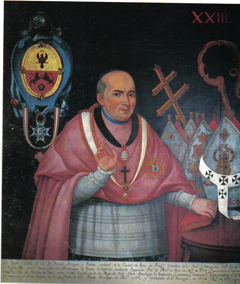 Portrait of Bishop of Oaxaca, Antonio Bergosa y Jordán